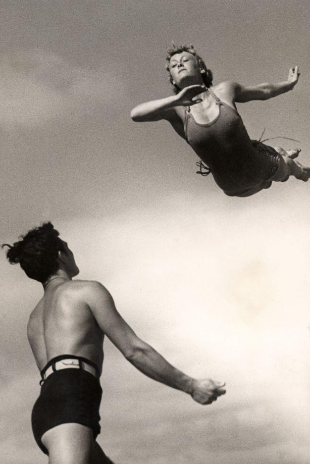 Seaside life. Man standing ready to catch a woman coming down with a swallow dive. Photograph from the Dutch illustrated magazine 'Het Leven' (bathing issue), 1937. You can help us gain more knowledge on the content of our collection by simply adding a comment with information. If you do not wish to log in, you can write an e-mail to